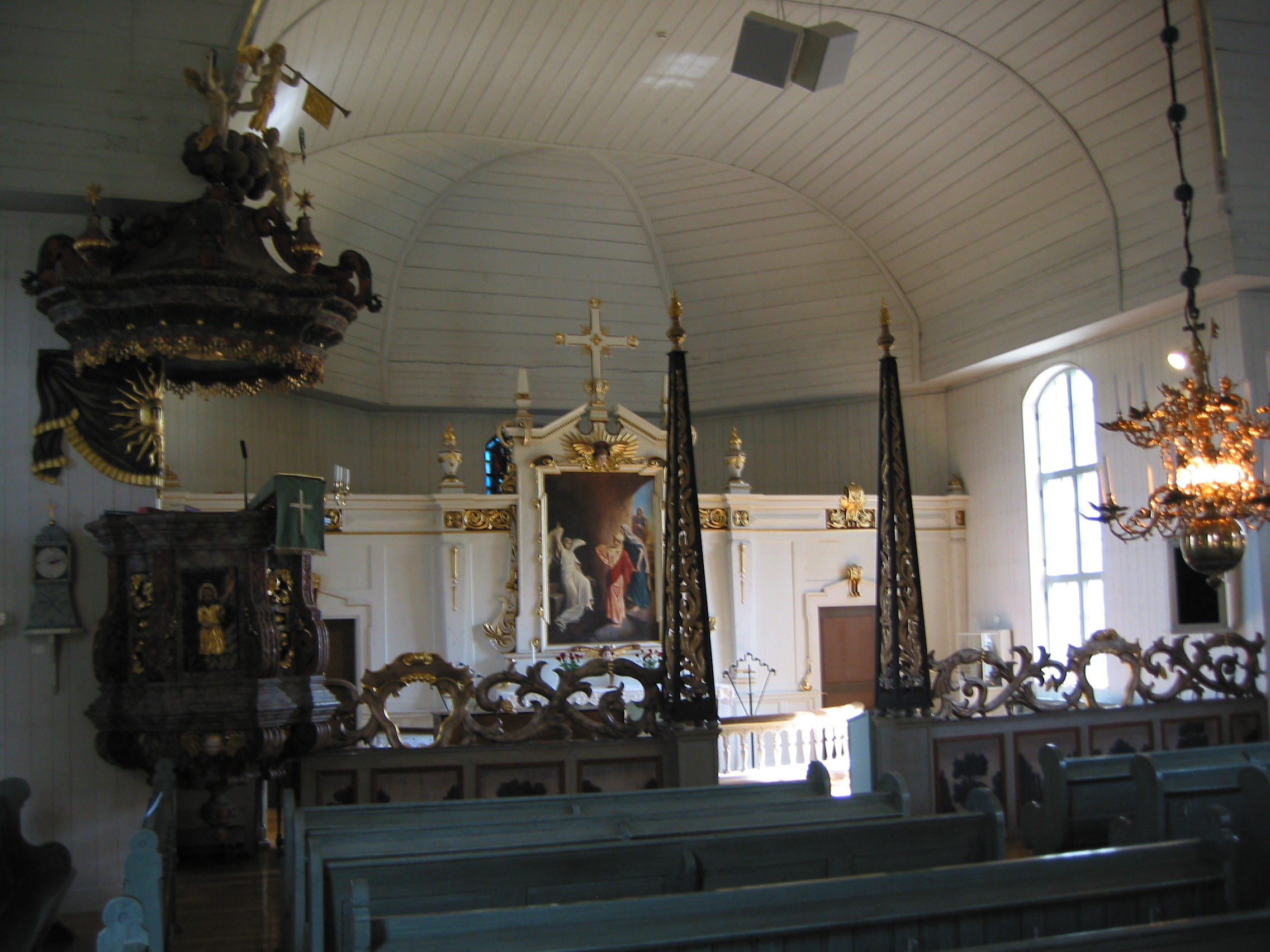 Matarengi Church interior, Övertorneå, Sweden